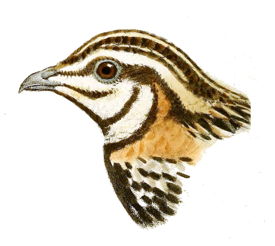 Drawing of head of Corturnix coromandelica.